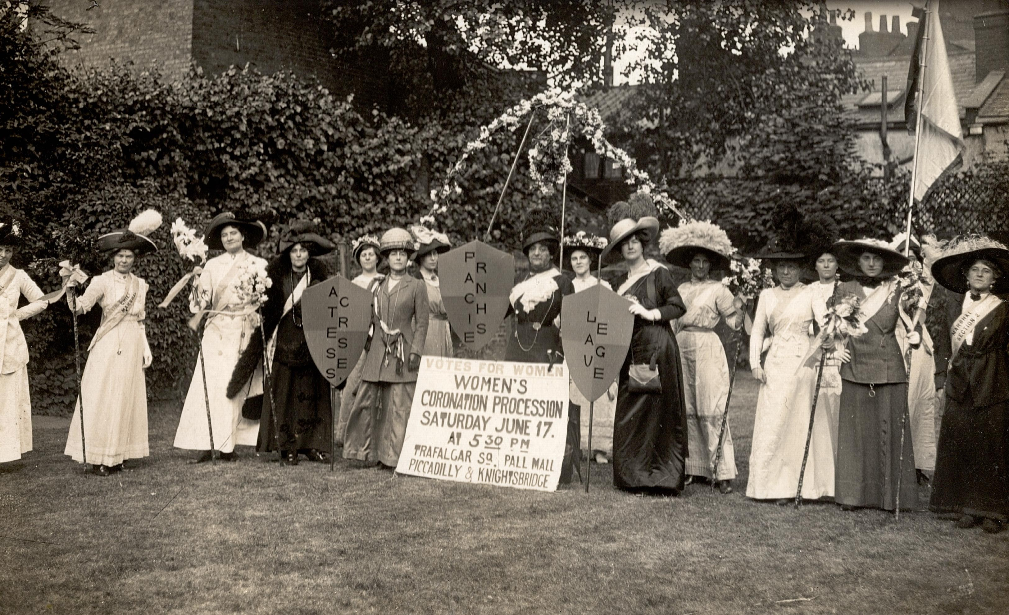 Actresses Franchise League at Women's Coronation Procession, suffrage, 17 Jun 1911 twl 1999 225